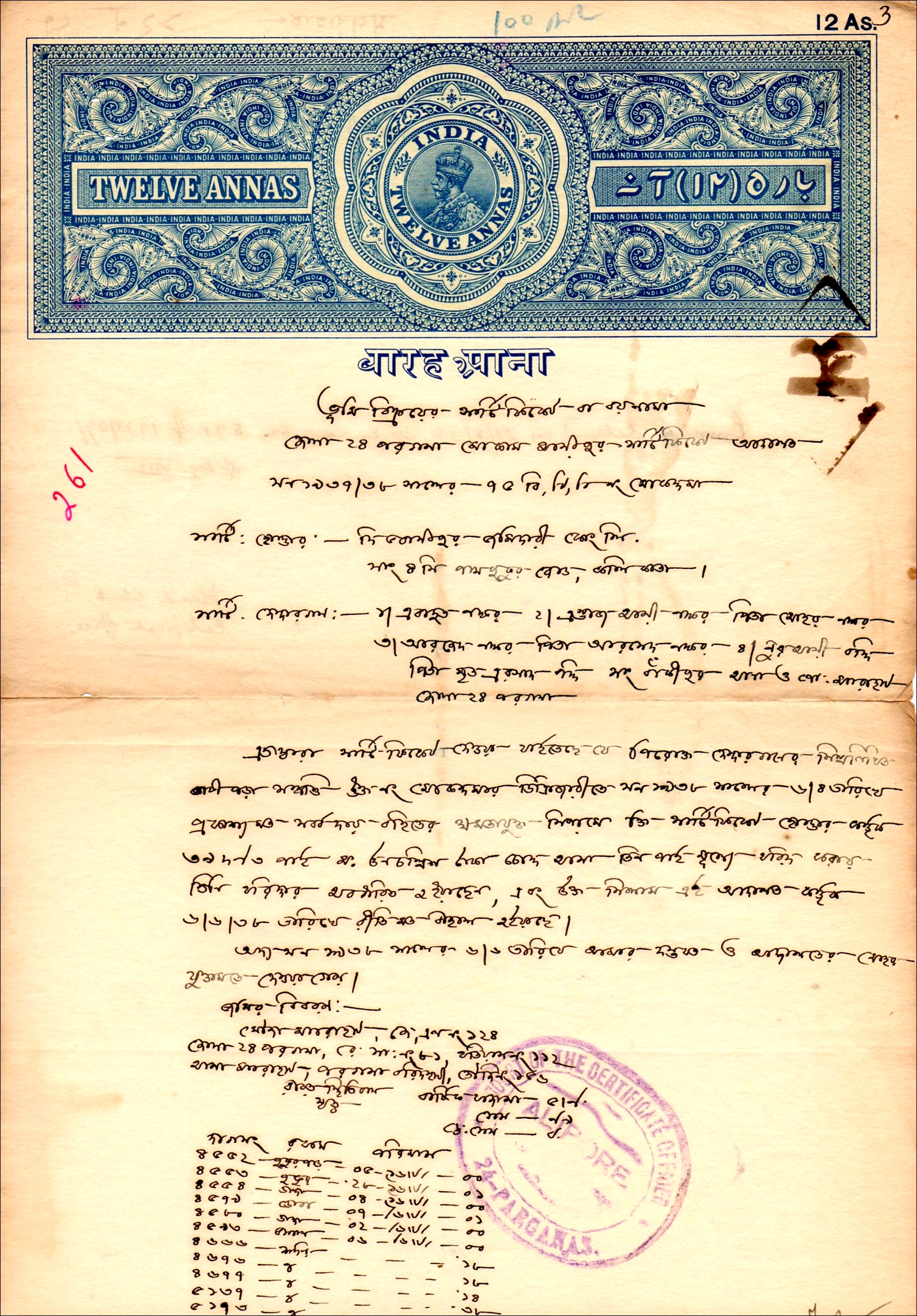 Scan of the front of an Indian 12 Anna stamped paper used in 1938. Expired Crown Copyright for the UK and its former colonies. Top 90% shown only as original too long for scanner.